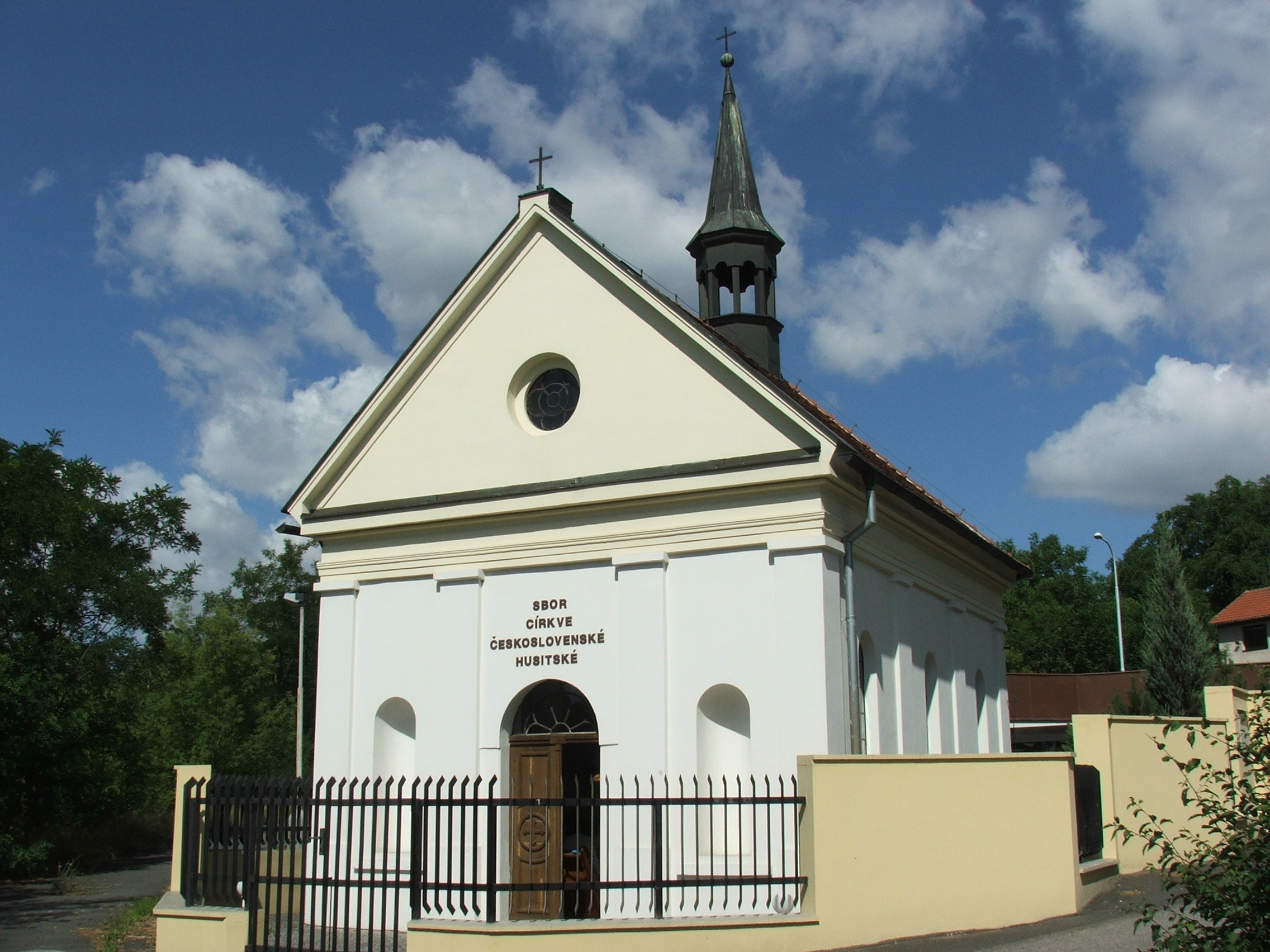 Church of Czechoslovak hussite Church, Prague - Krč